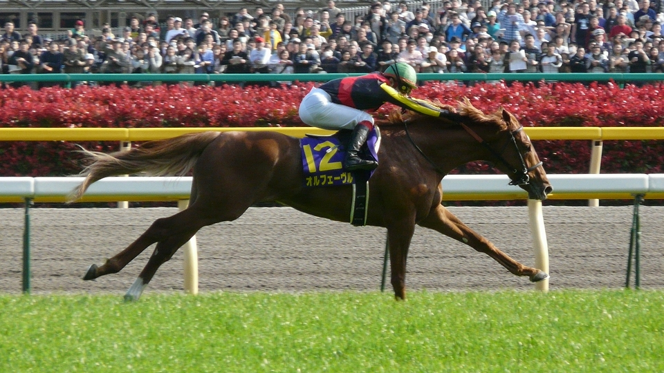 Orfevre at the 2011 Satsuki Sho horserace